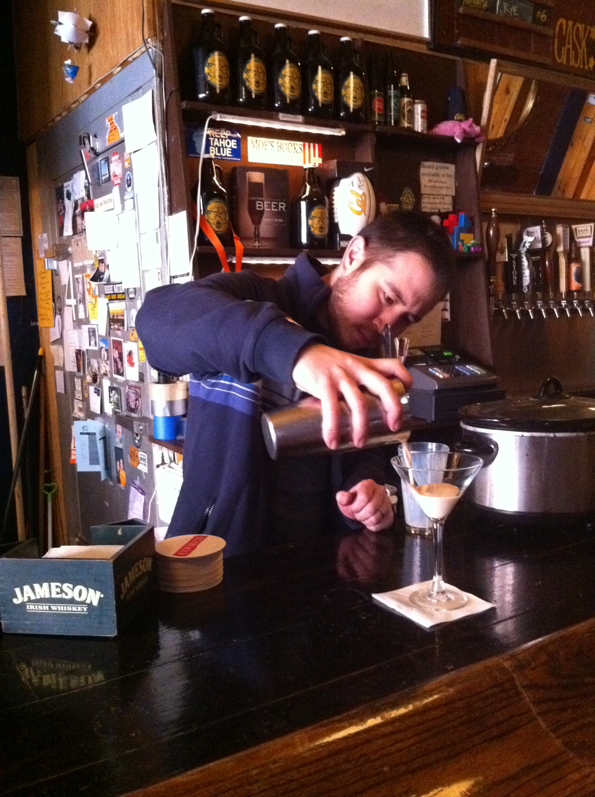 Pacific Standard bar owner Jonathan M. Stan at the bar, preparing the Santorum cocktail drink.